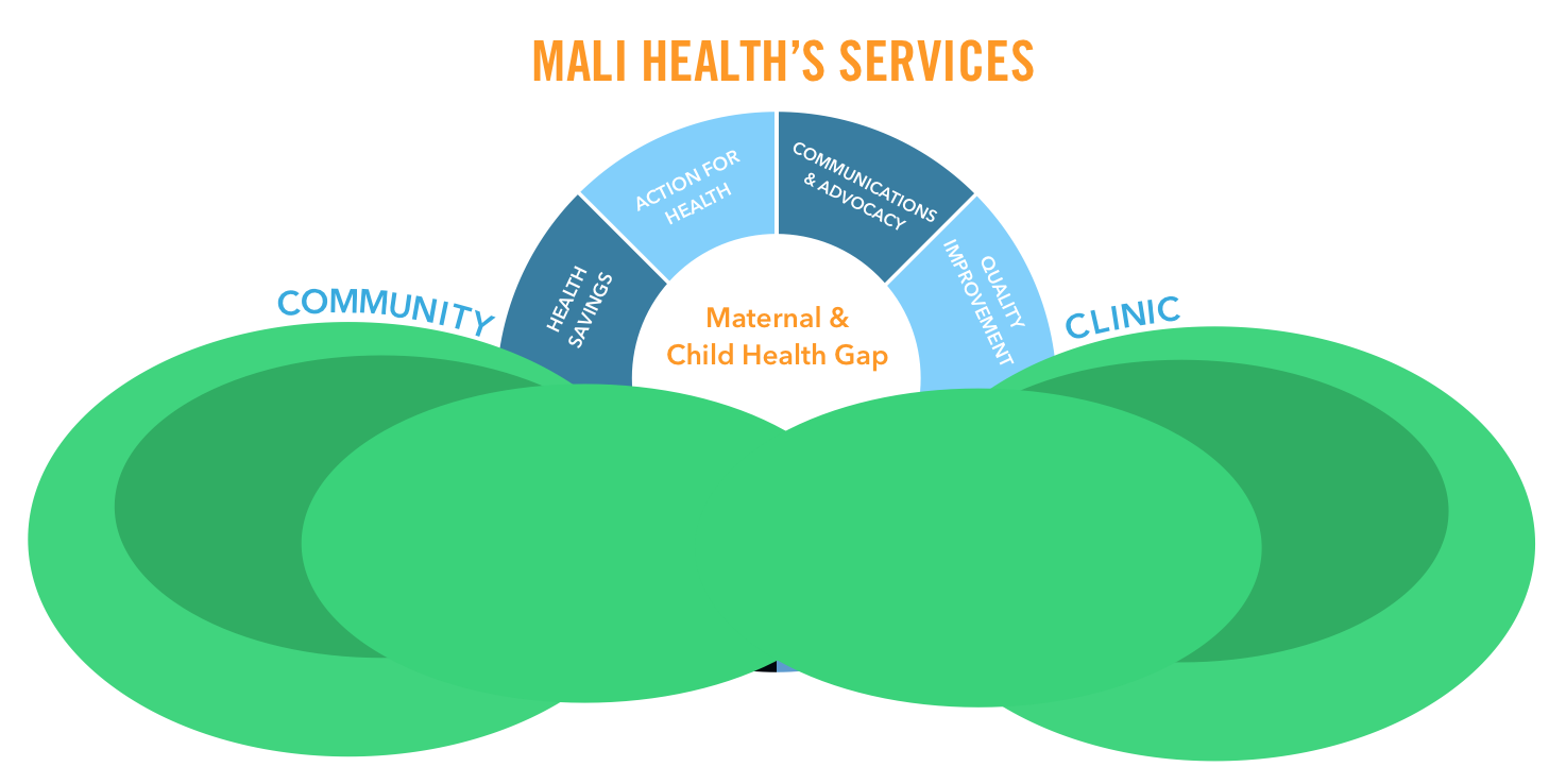 This graphic describes the programs of the Mali Health organization.